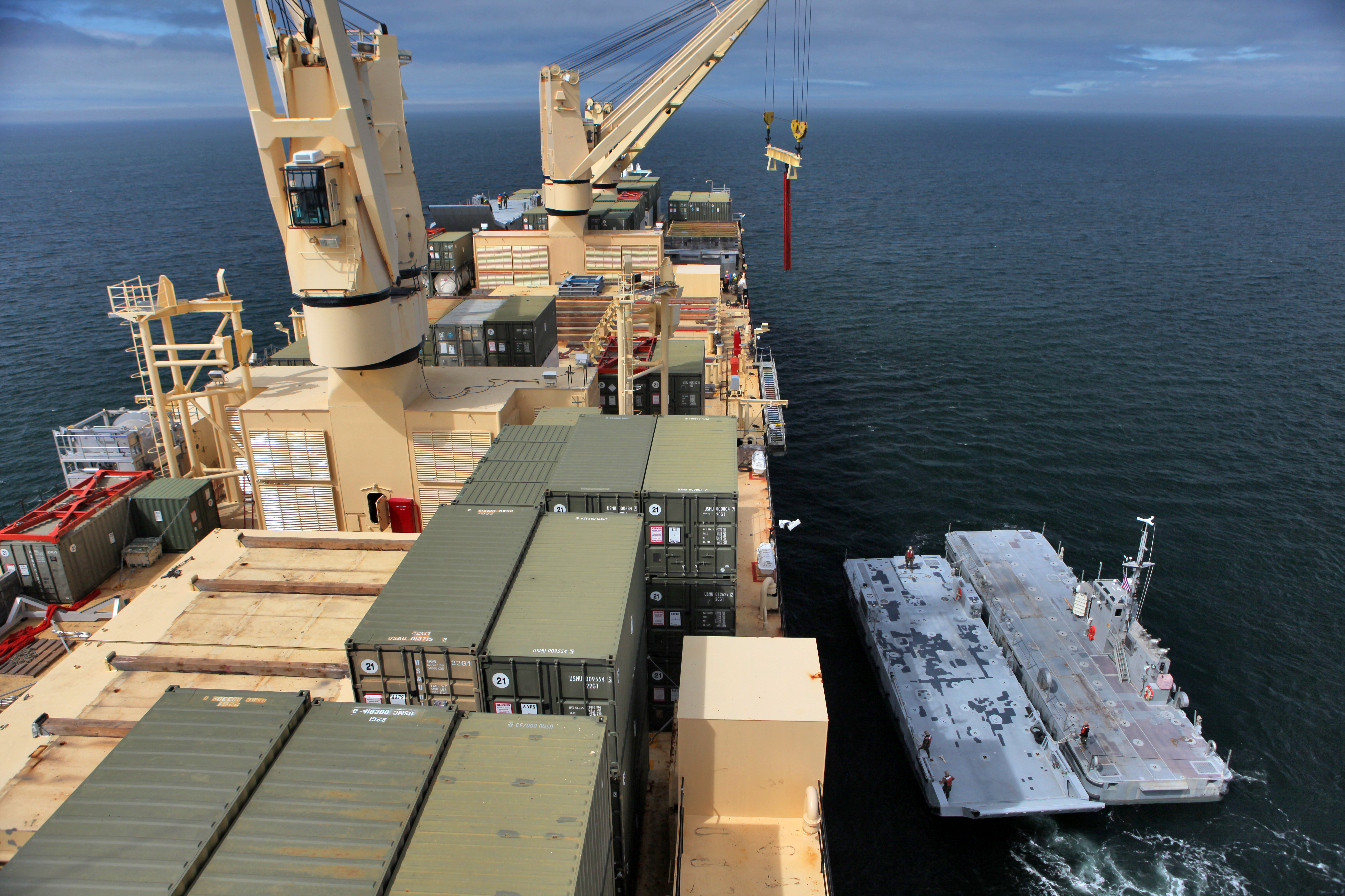 CAMP PENDLETON, Calif. (March 3, 2011) A crane offloads a beach landing module from the Military Sealift Command container roll on/roll off ship USNS Sgt. William Button (T-AK 3012) near Camp Pendleton, Calif., during Pacific Horizon 11. Pacific Horizon 11 provides 1st Marine Expeditionary Force and Expeditionary Strike Group (ESG) 3 the opportunity to exercise essential core competencies at the brigade level to rapidly respond to an emerging crisis with a flexible, full spectrum capability. (U.S. Marine Corps photo by Sgt. Jason W. Fudge/Released)